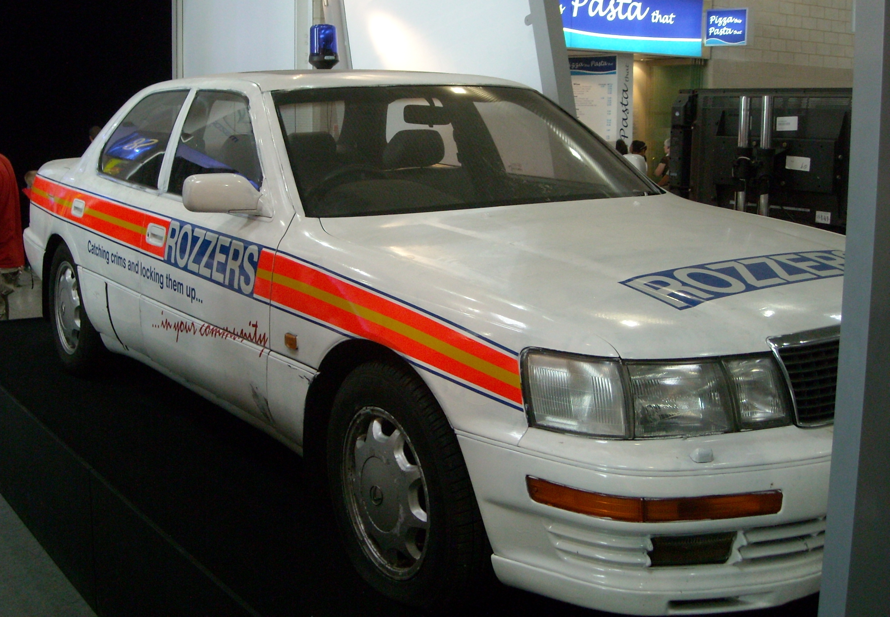 James May's Top Gear challenge to make a Police Car using a Lexus LS400